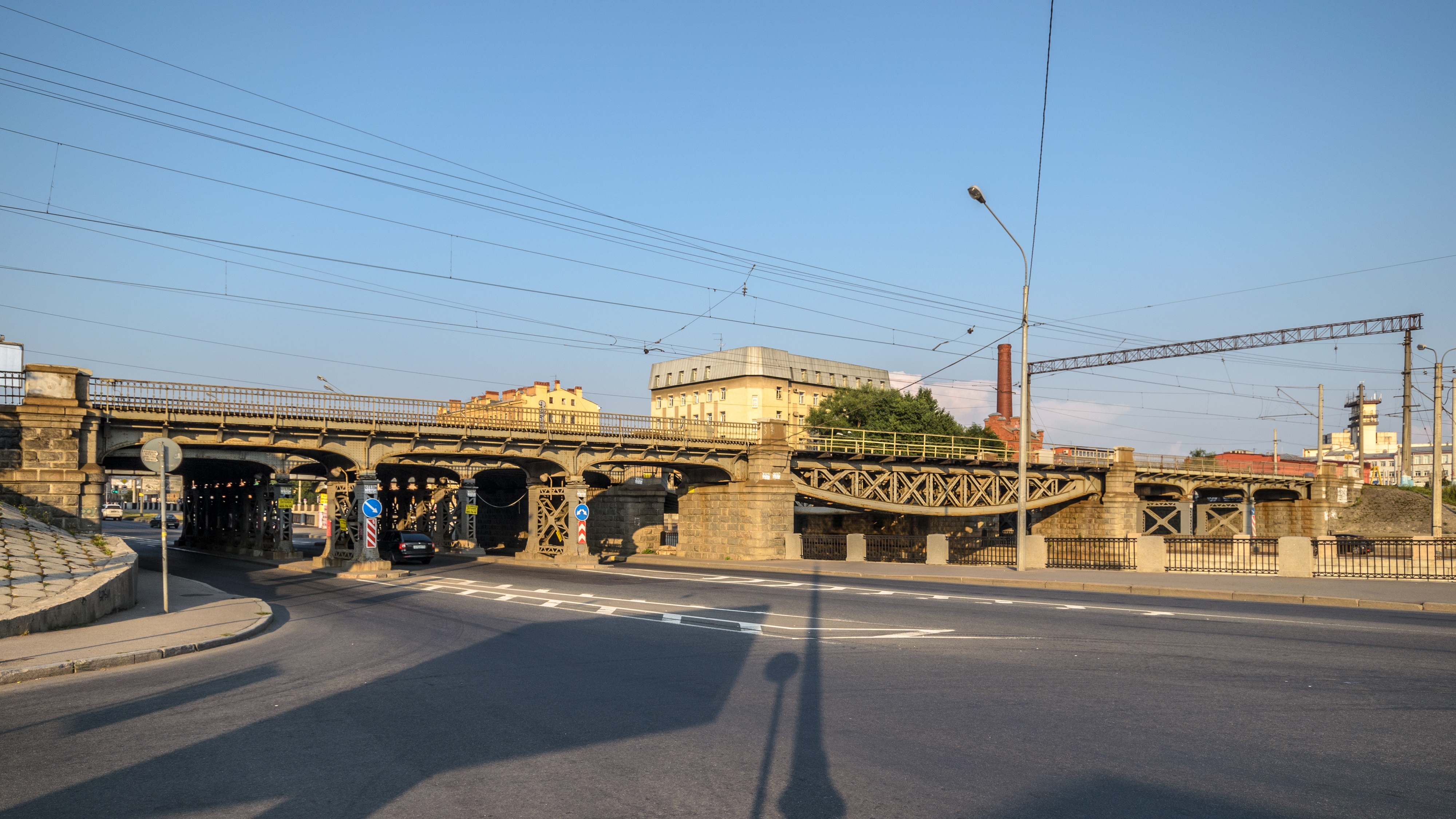 Tsarskoselsky Railway Bridge in Saint Petersburg